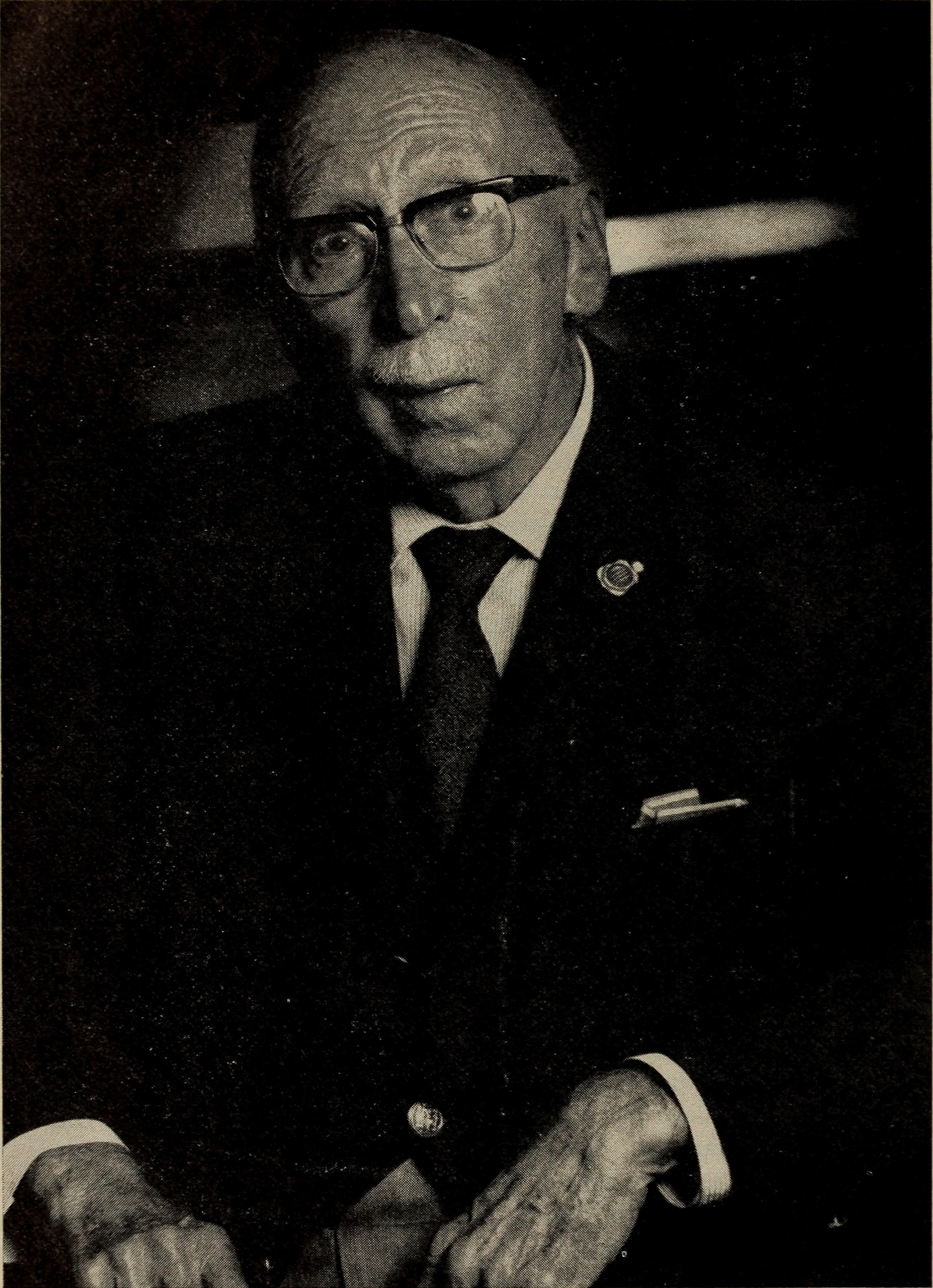 Ellis Le Geyt Troughton in 1973 Title: The Australian zoologist Year: 1914 (1910s) Authors: Royal Zoological Society of New South Wales; Royal Zoological Society of New South Wales. Proceedings Subjects: Zoology; Zoology; Zoology Publisher: (Sydney, Royal Zoological Society of New South Wales) Text Appearing Before Image: GILBERT P. WHITLEY Text Appearing After Image: Ellis Le Geyt Troughton, C.M.Z.S., F.R.Z.S. in 1973. 220 Photograph by courtesy of the Linnean Society of New South Wales Aust. Zool. 18(3), 1975